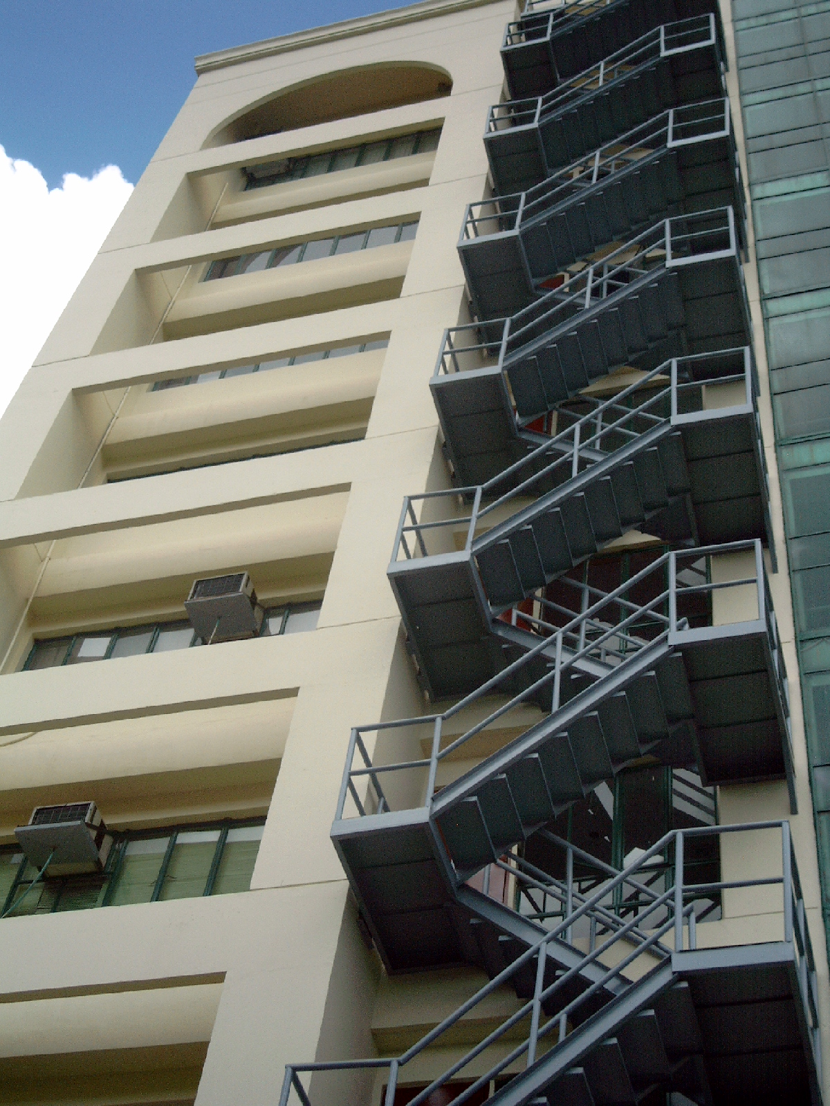 De La Salle University Medical Center - Building 3